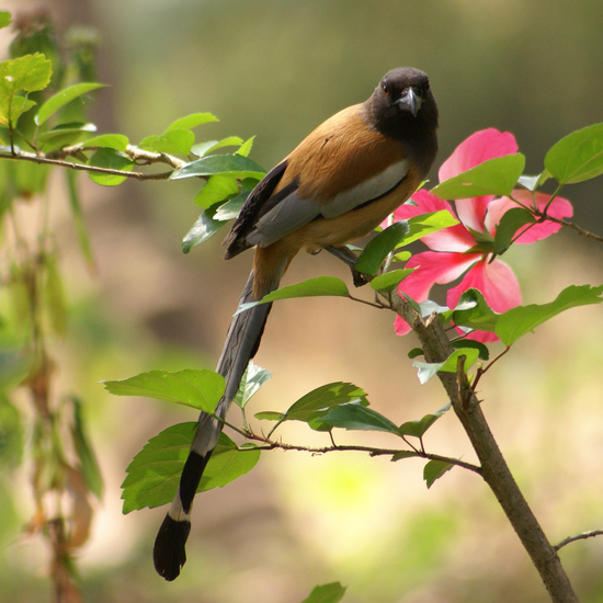 Rufous Treepie (Dendrocitta vagabunda) in Calicut-Kerala-India.